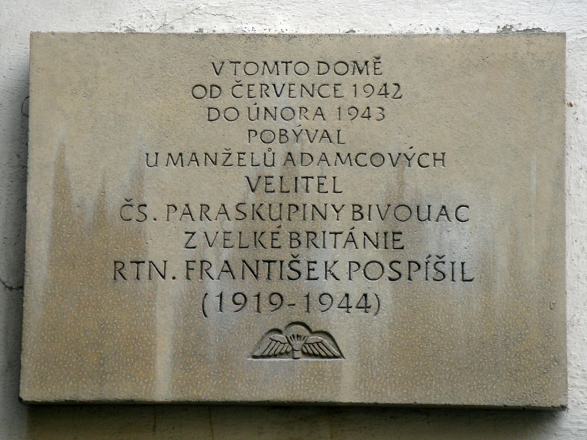 František Pospíšil, Brno